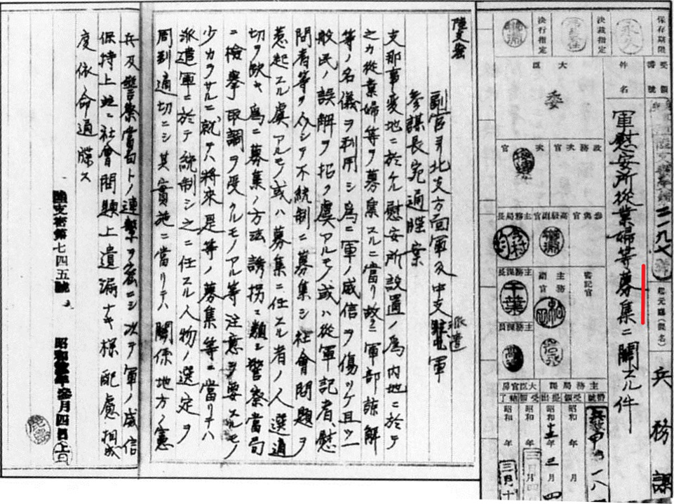 Regarding the recruitment of comfort women